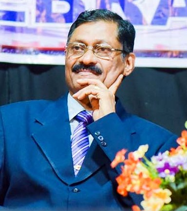 Y Ravindranath Rao ಕನ್ನಡ: ವೈ ರವೀಂದ್ರನಾಥ್ ರಾವ್